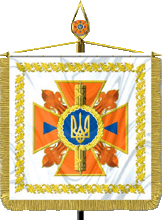 Standard of Ukrainian DSNS Head